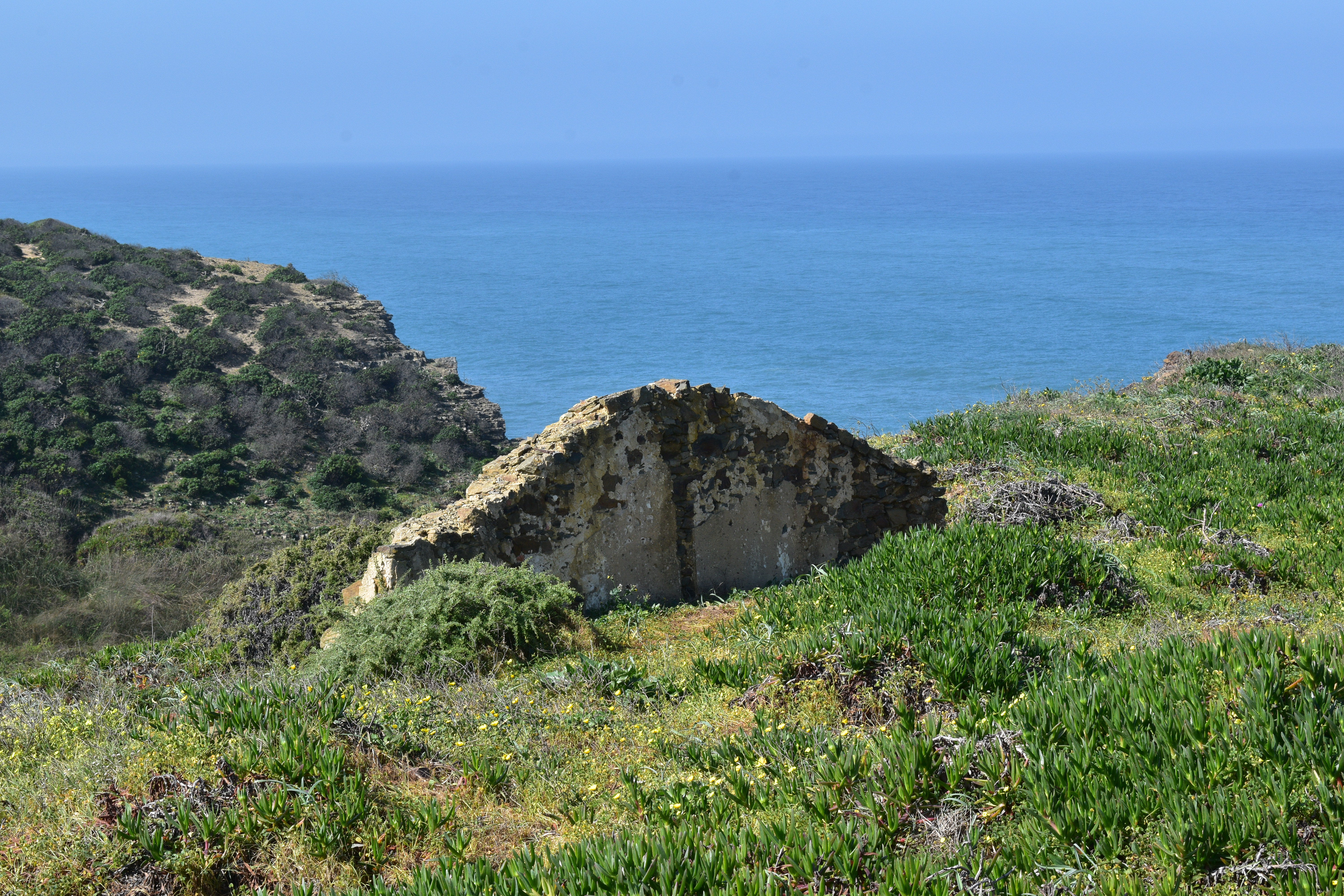 Stone wall near the ruins of the Arrifana Ribat, in Algarve, Portugal.